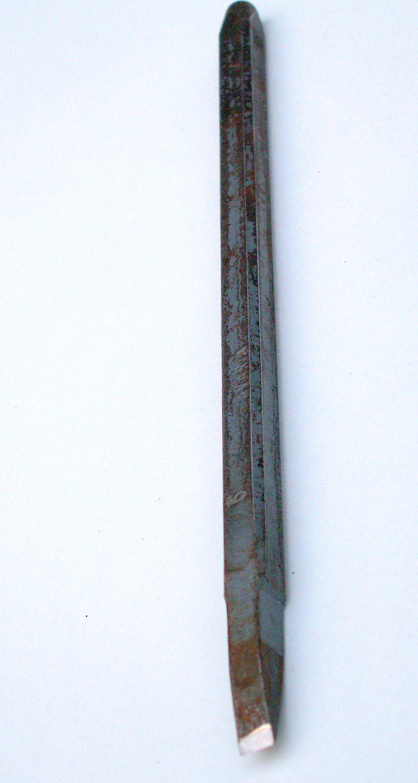 a type of stone chisel for lettering with tungsten carbide inlet